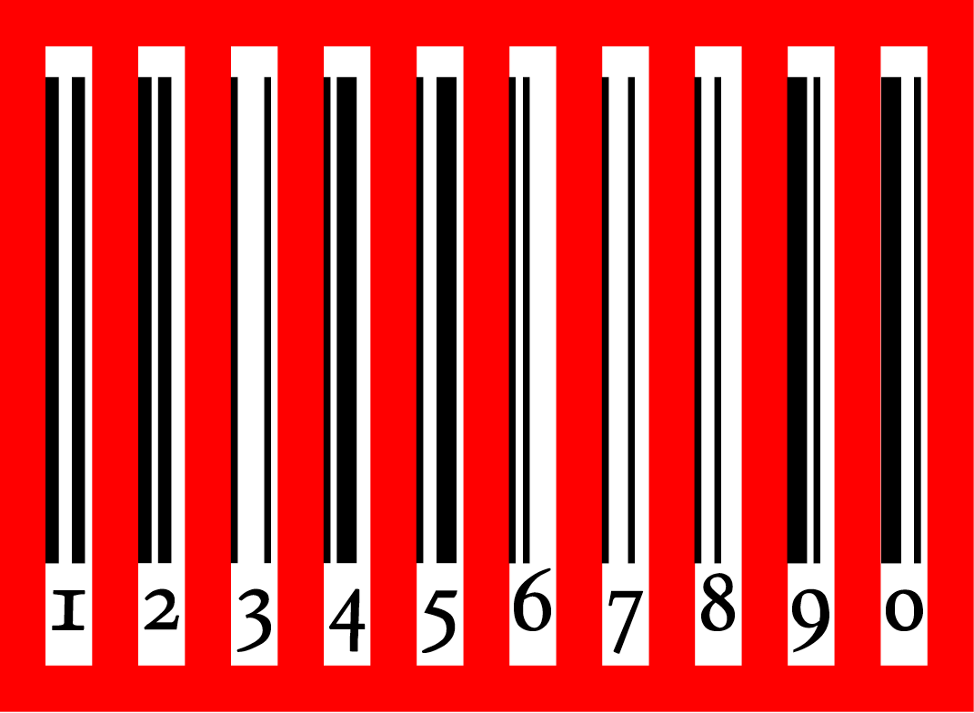 whole EAN-font, code R